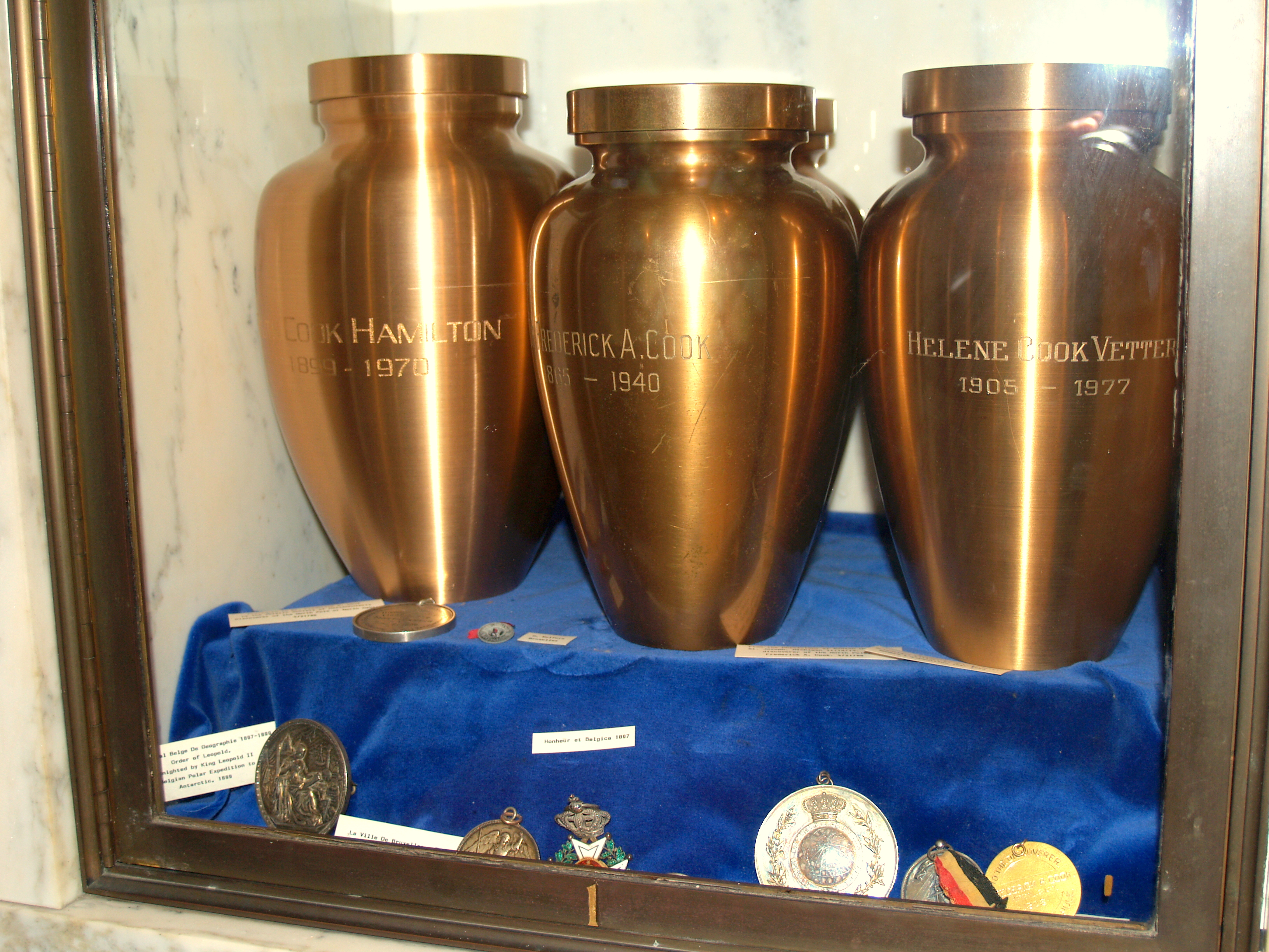 Frederick Cook urn at Forest Lawn